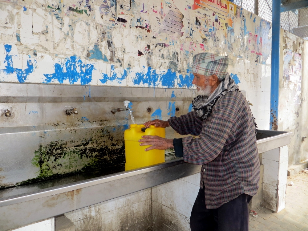 Description from B'Tselem source: "Severe problems with water supply in West Bank and Gaza, February 2014." Photo caption from source: "Elderly man fills water container at public multi-faucet sink of Khan Yunis Water Authority’s wastewater treatment plant."